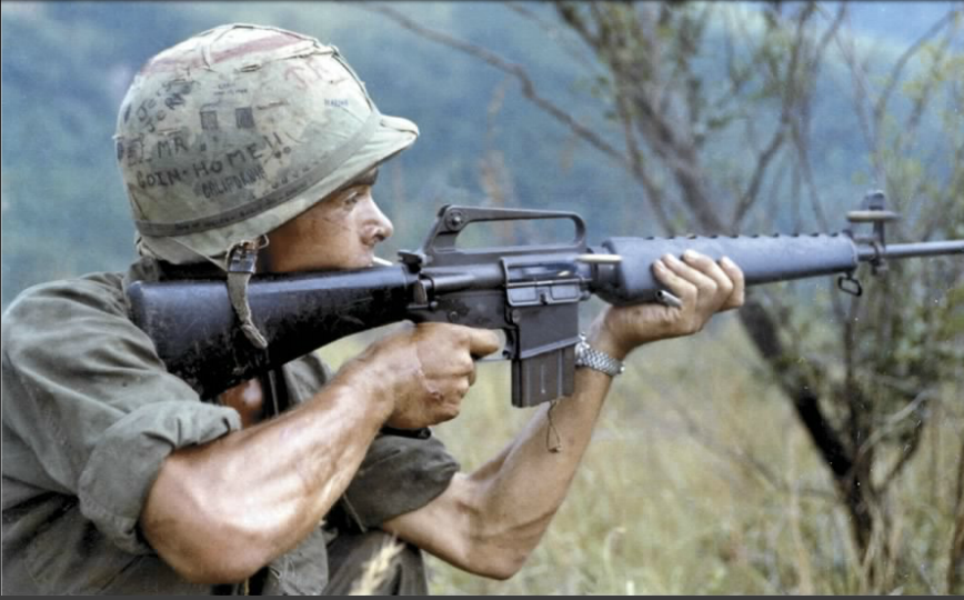 Operation “Cook”, 8 September 1967, Quang Ngai Province, Republic of Vietnam: PFC Michael J. Mendoza (Piedmont, CA.) fires is M-16 rifle into a suspected Viet Cong occupied area. PFC Mendoza was a rifleman with “A” Company, 2nd Battalion, 502nd Infantry, 101st Airborne Brigade